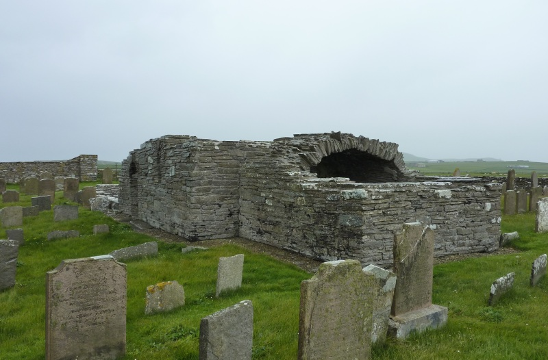 Westside Church, Tuquoy, Westray, Orkney, Scotland. View from southeast.